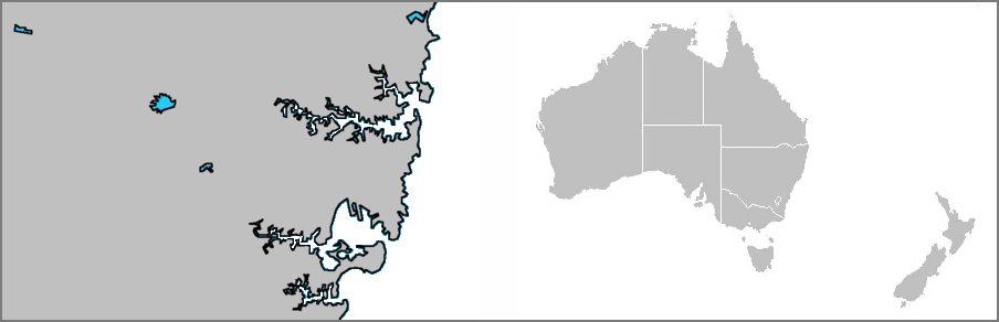 Blank map of Australia and New Zealand with Sydney metropolitan enlargement, version 1. Modified from Image:AustraliaNZ-blank.png (by User:Chuq) and Image:Sydney locator map.png (by User:Bongomanrae) both available under WP:GFDL. Modifications made by myself, Florrie using Arcsoft PhotoStudio 5.5. Designed for use on National Rugby League and associated articles.